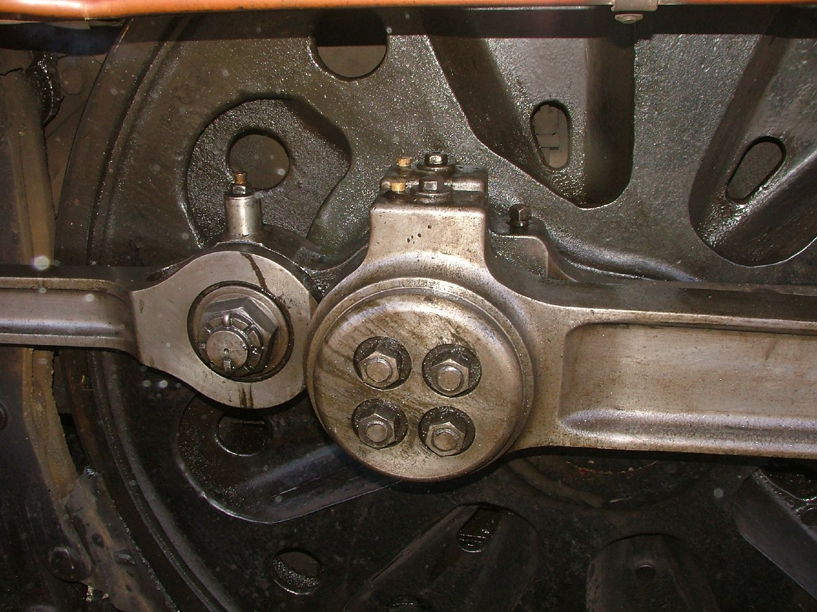 Detail of crank pinBlackmore Vale detail